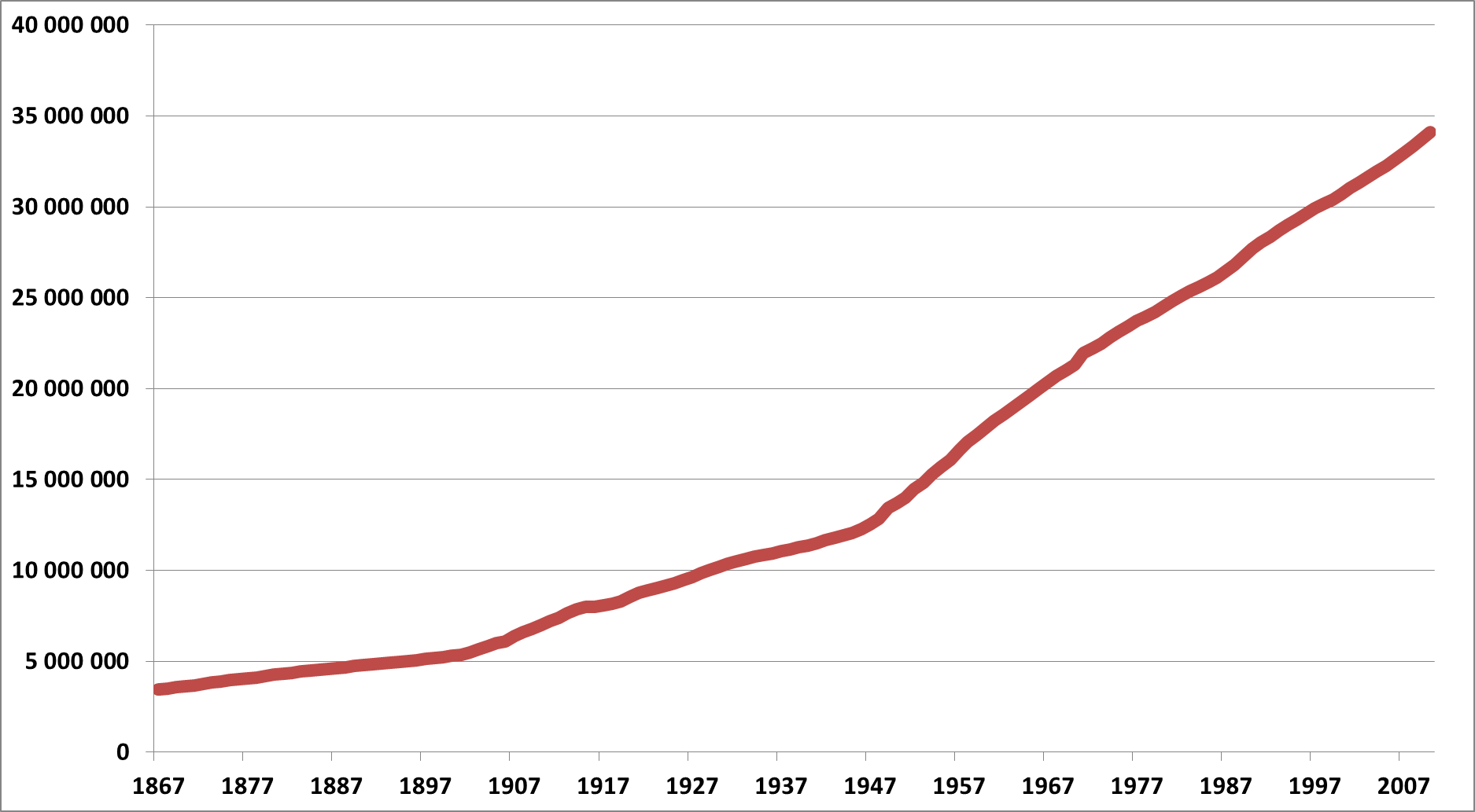 Canada's population (1867-2010).